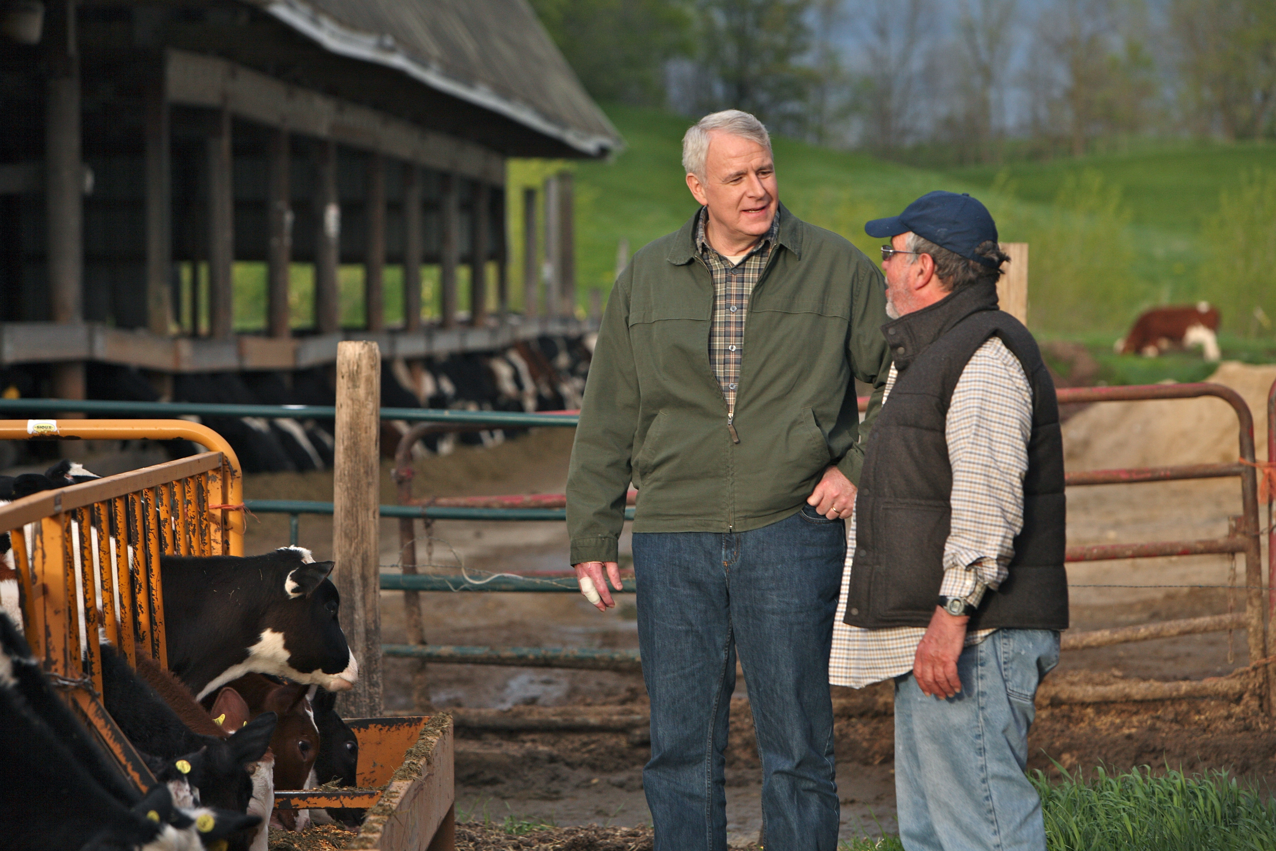 Tom Barrett talks with local dairy farmer